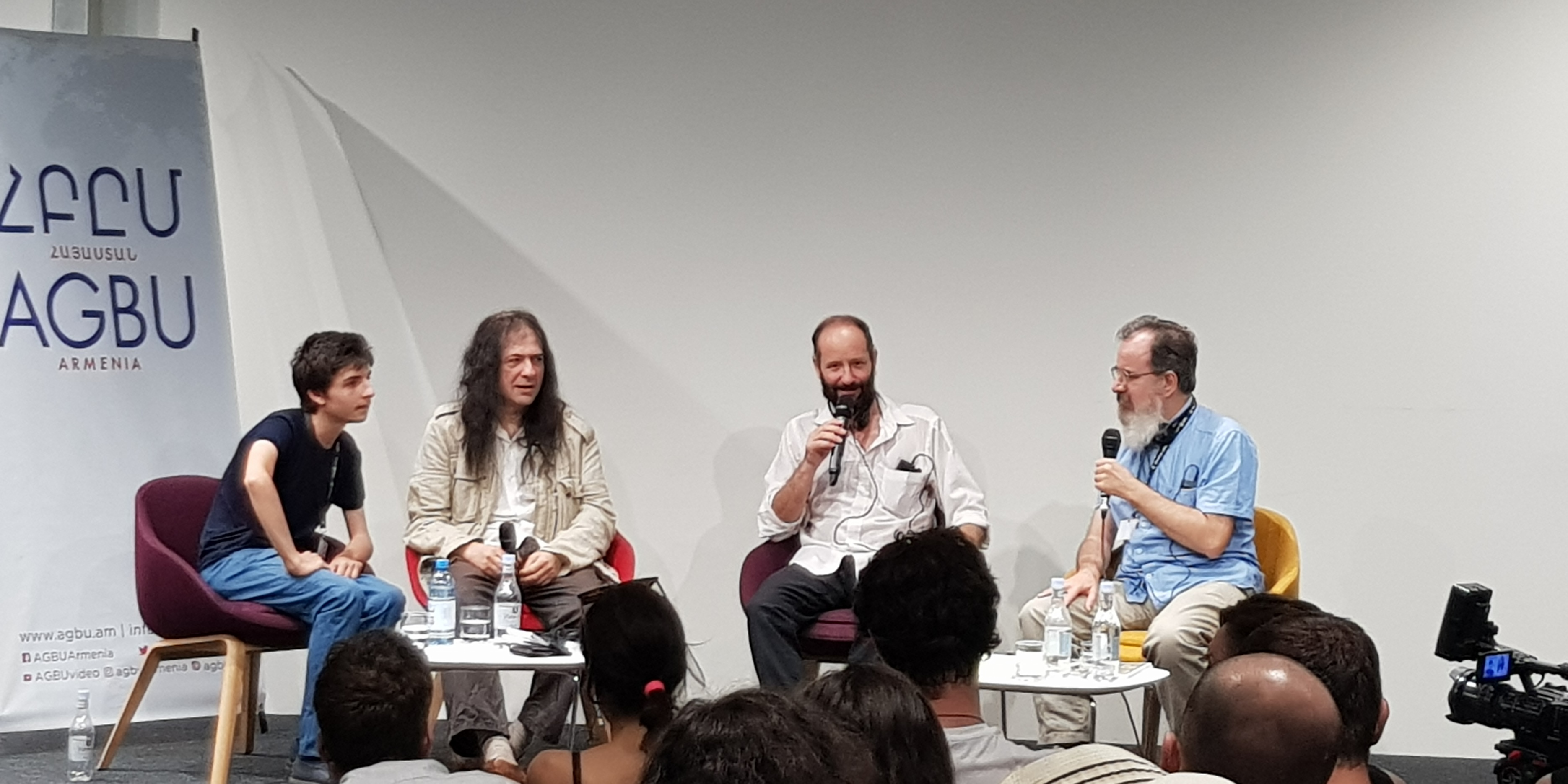 Rendezvous with Carlos Reygadas and Artour Aristakisian, Moderator: James Steffen (Film historian, USA)